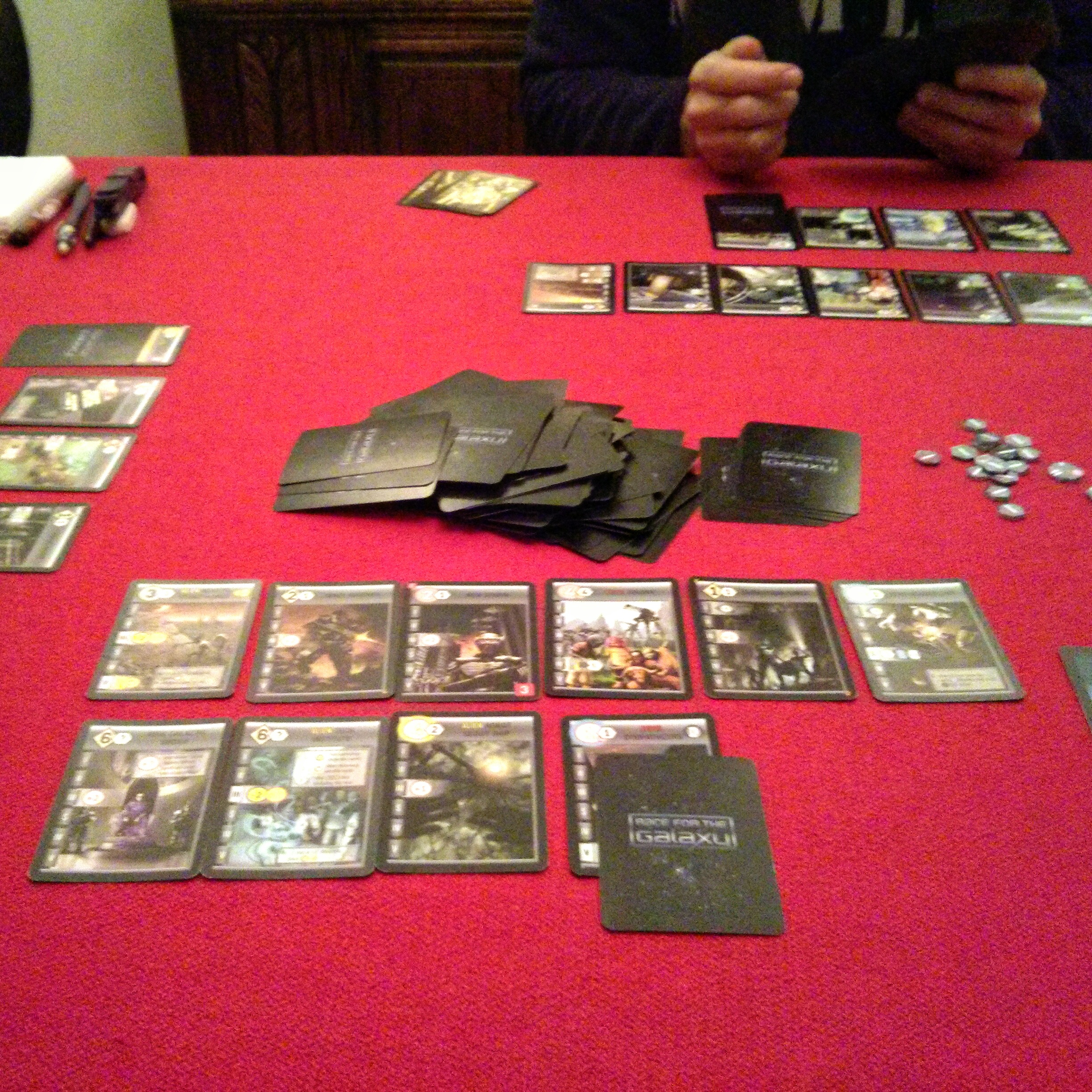 Gameplay shot of Race for the Galaxy. The closest tableau has 10 cards in it, indicating this is the late game.